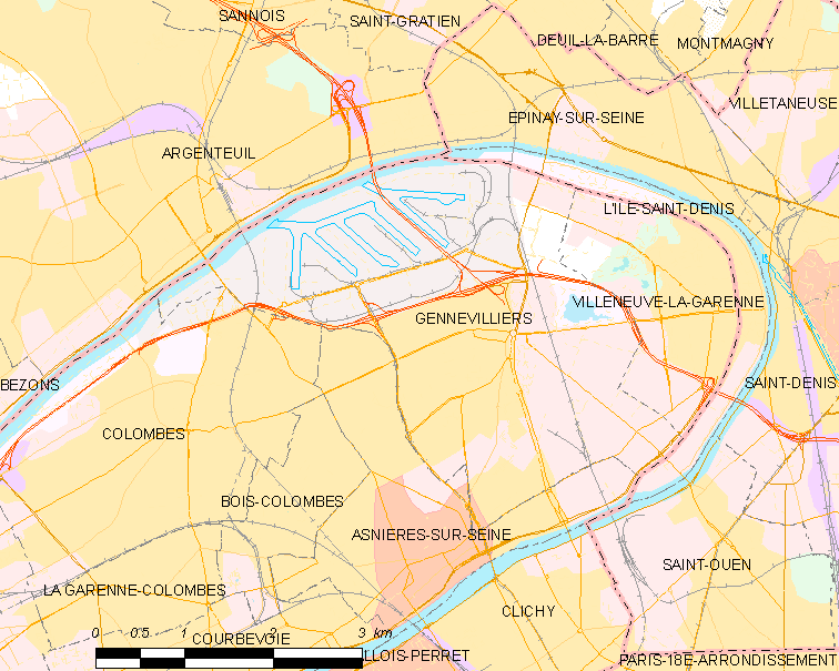 Map of French municipality Gennevilliers